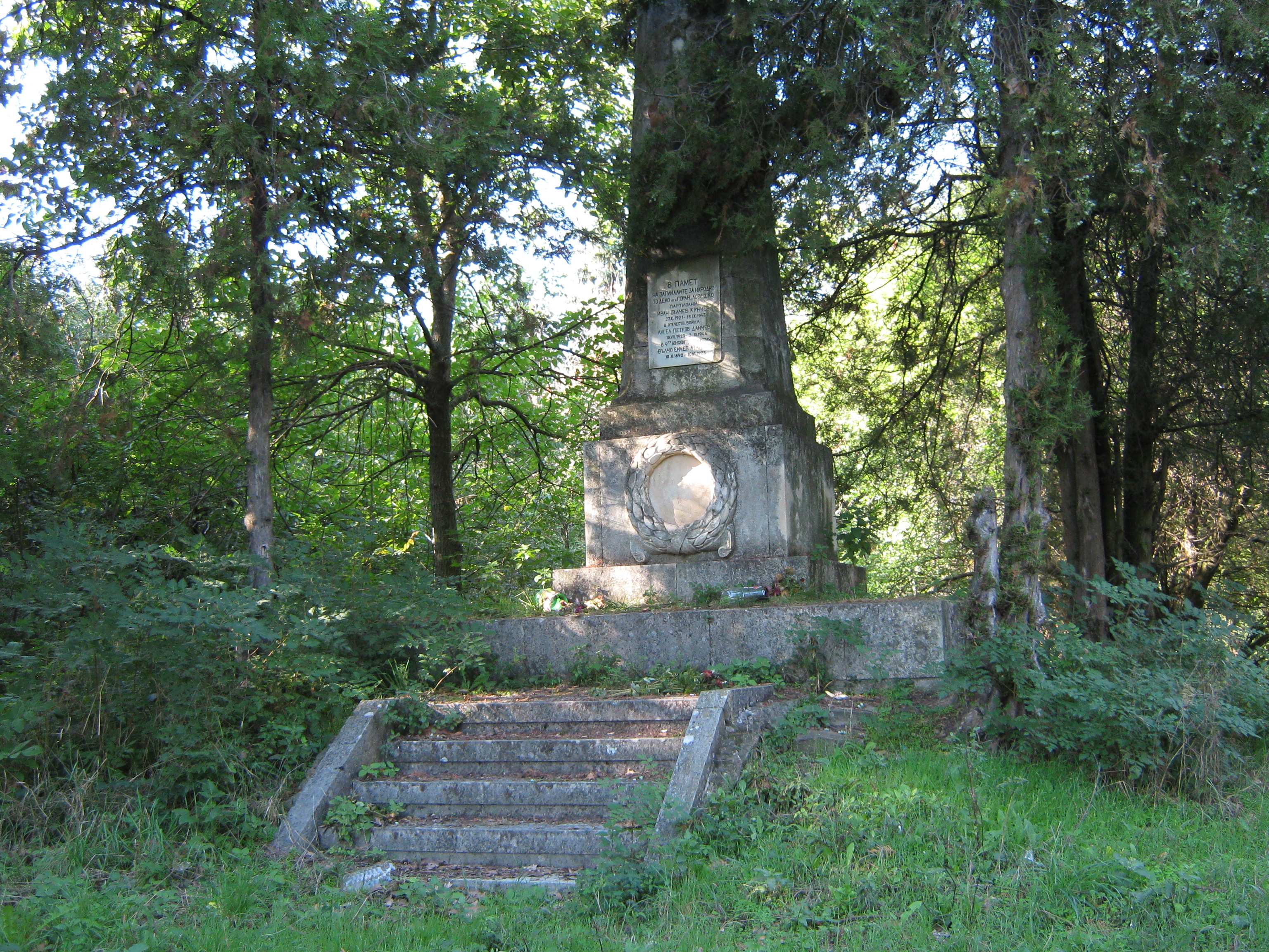 no